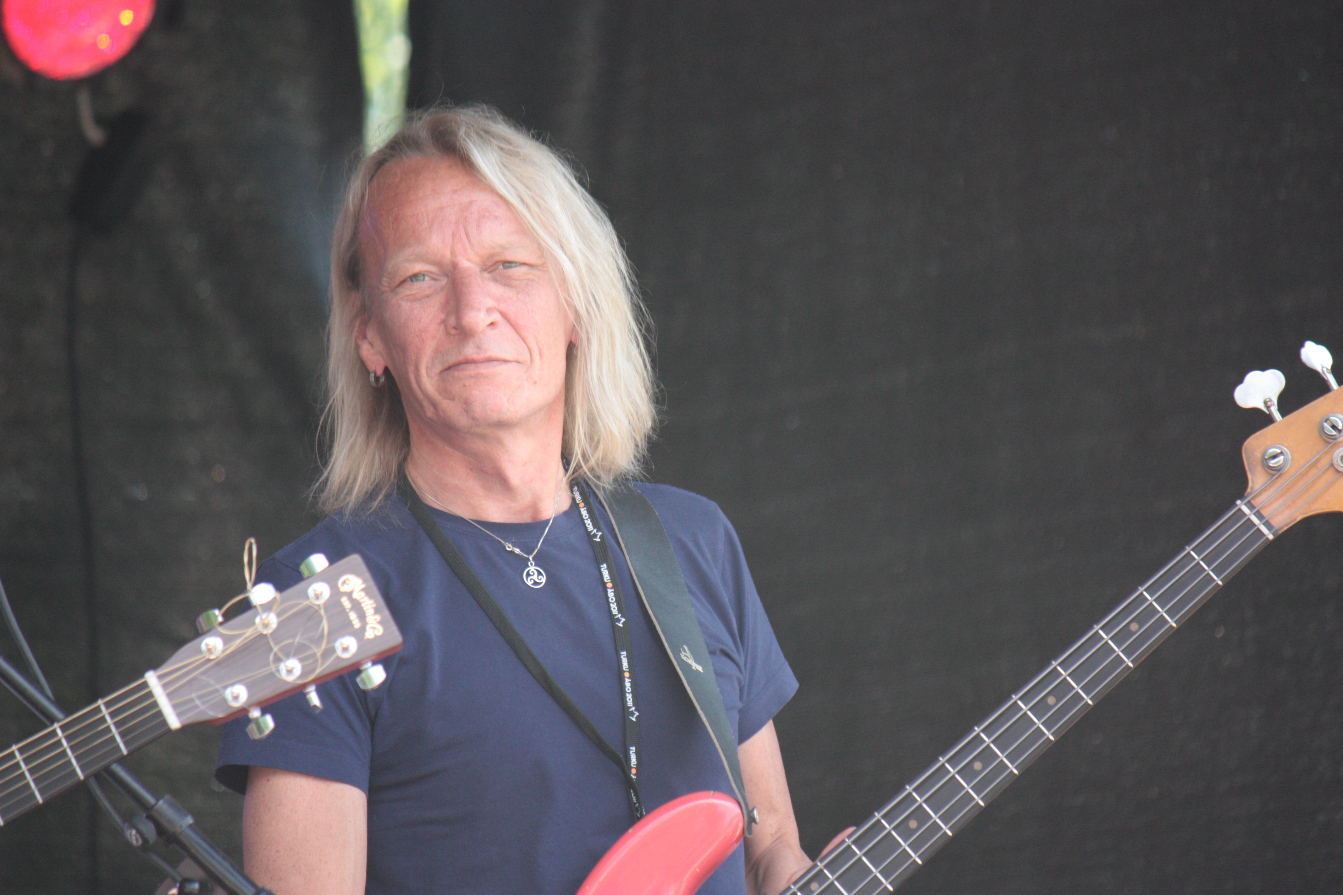 Bass player Mikko Löytty playing in the children's band Herra Heinämäen Lato-orkesteri. Performing in Seikkisrock festival in Seikkailupuisto park, Turku, Finland